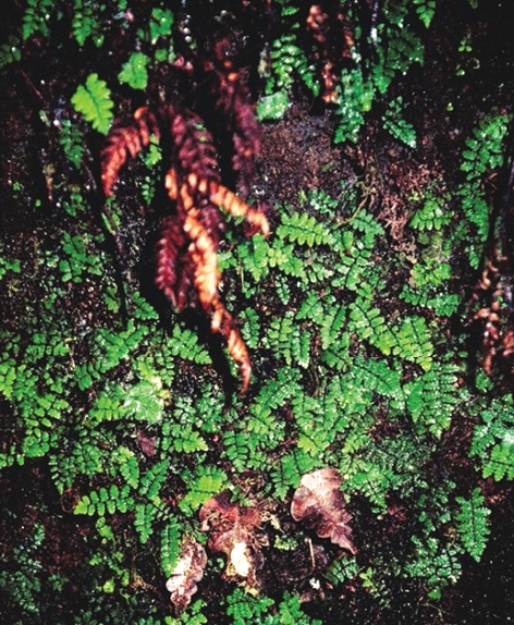 Thelypteris marquesensis